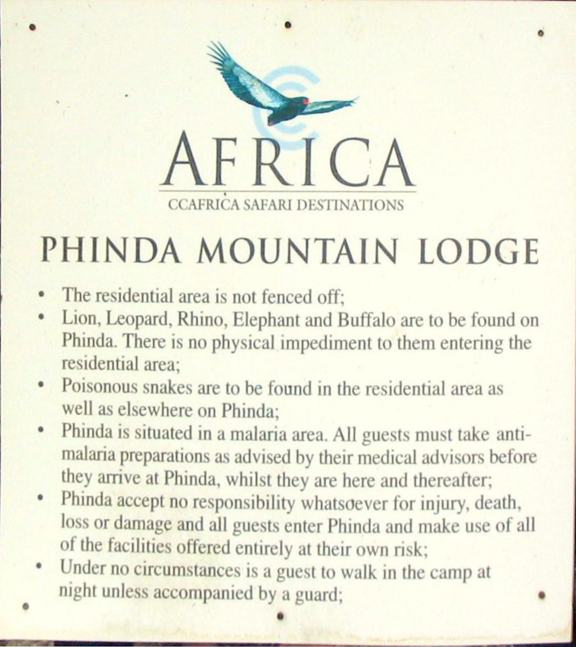 A board that lists the important points tourists must keep in mind when visiting the Phinda Mountain Lodge, South Africa